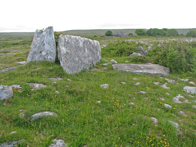 Northernmost of the Gleninsheen wedge tombs